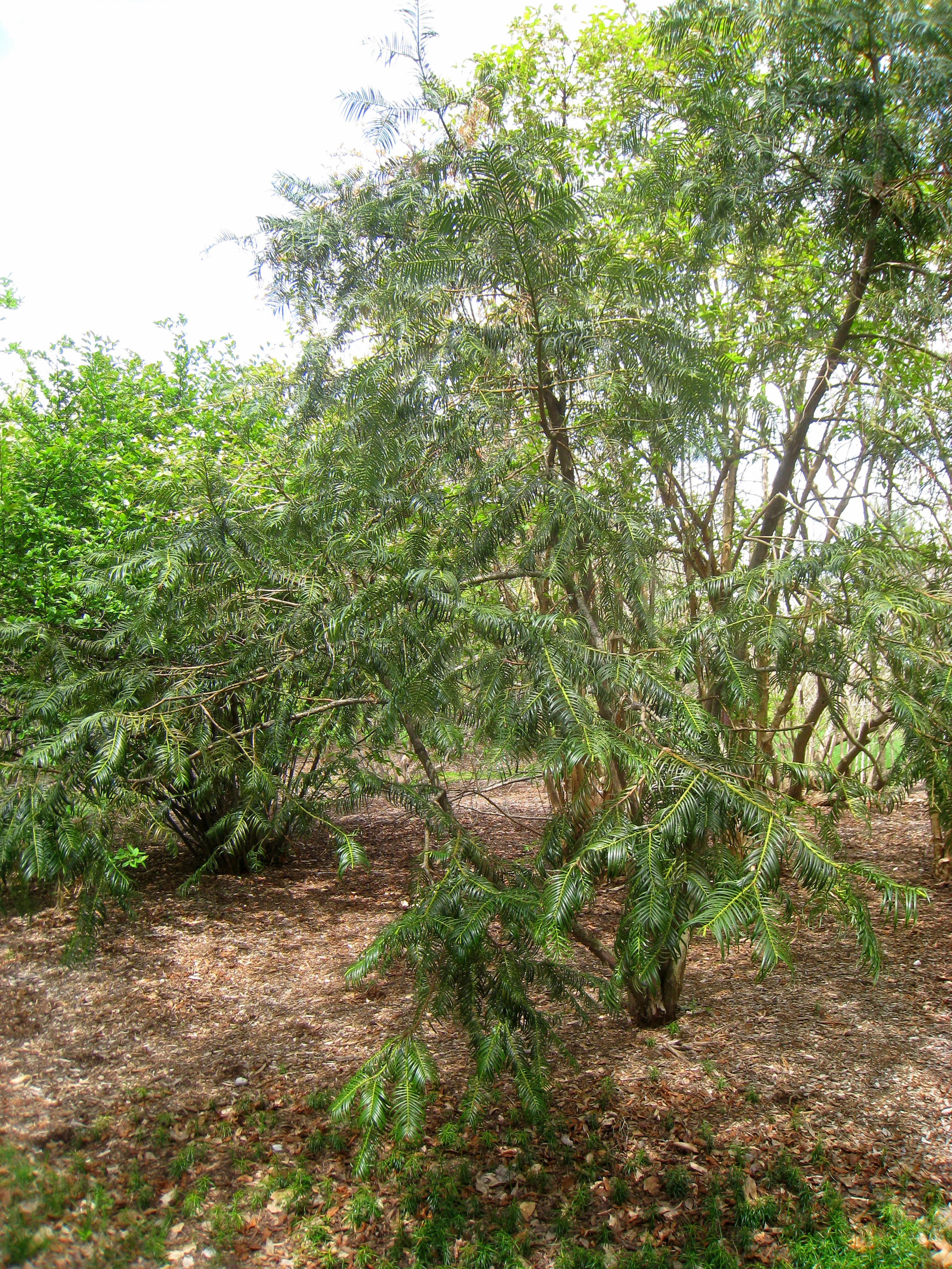 Cephalotaxus fortunei, Arnold Arboretum, Jamaica Plain, Boston, Massachusetts, USA.